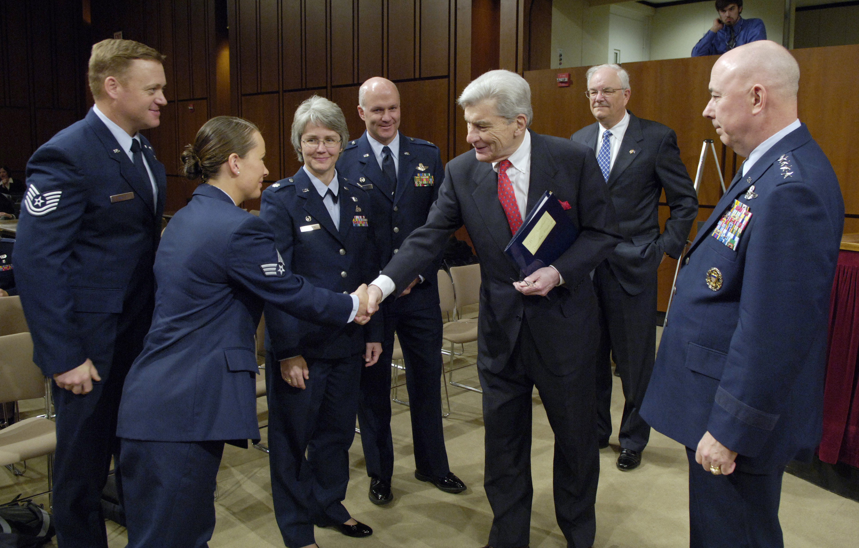 Sen. John Warner (R-Va.) greets Airmen attending the Senate Armed Services Committee hearing Thursday, March 2, 2006, in Washington, D.C. At right are Air Force Chief of Staff Gen. T. Michael Moseley and Secretary of the Air Force Michael W. Wynne. The invitees are, from left: Senior Airman Polly-Jan Bobseine, a security forces specialist with the 823rd Security Forces Squadron, Moody Air Force Base, Ga.; Tech. Sgt. Bradley Reilly, a combat controller with the 23rd Special Tactics Squadron, Hurlburt Field, Fla.; Lt. Col. Anne Konnath, commander of the 328th Weapons Squadron, Nellis Air Force Base, Nev.; and Lt. Col. Trey Turner III, commander of the 17th Reconnaissance Squadron, Nellis AFB, Nev. (U.S. Air Force photo/Master Sgt. Jim Varhegyi)